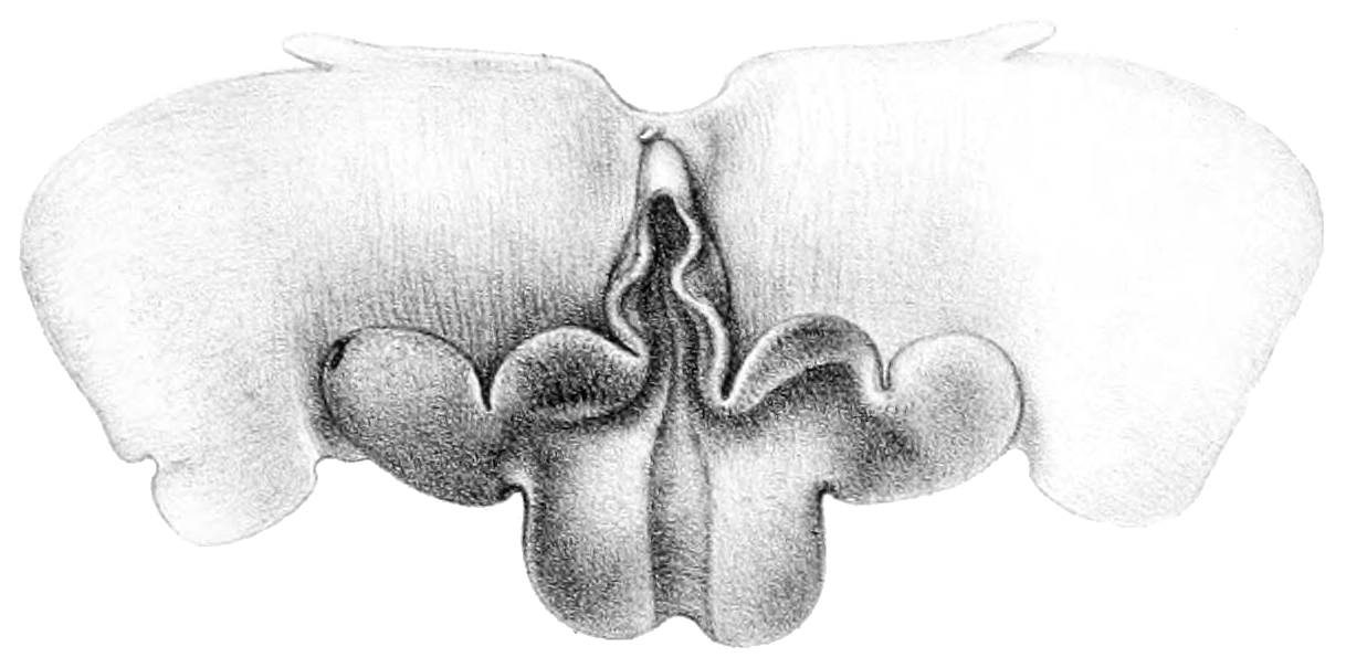 Drawing of part of Limacina helicina from ventral view shows parapodia, anterior lobe of the parapodia, lower part of the foot, folding on the ventral side of the foot.